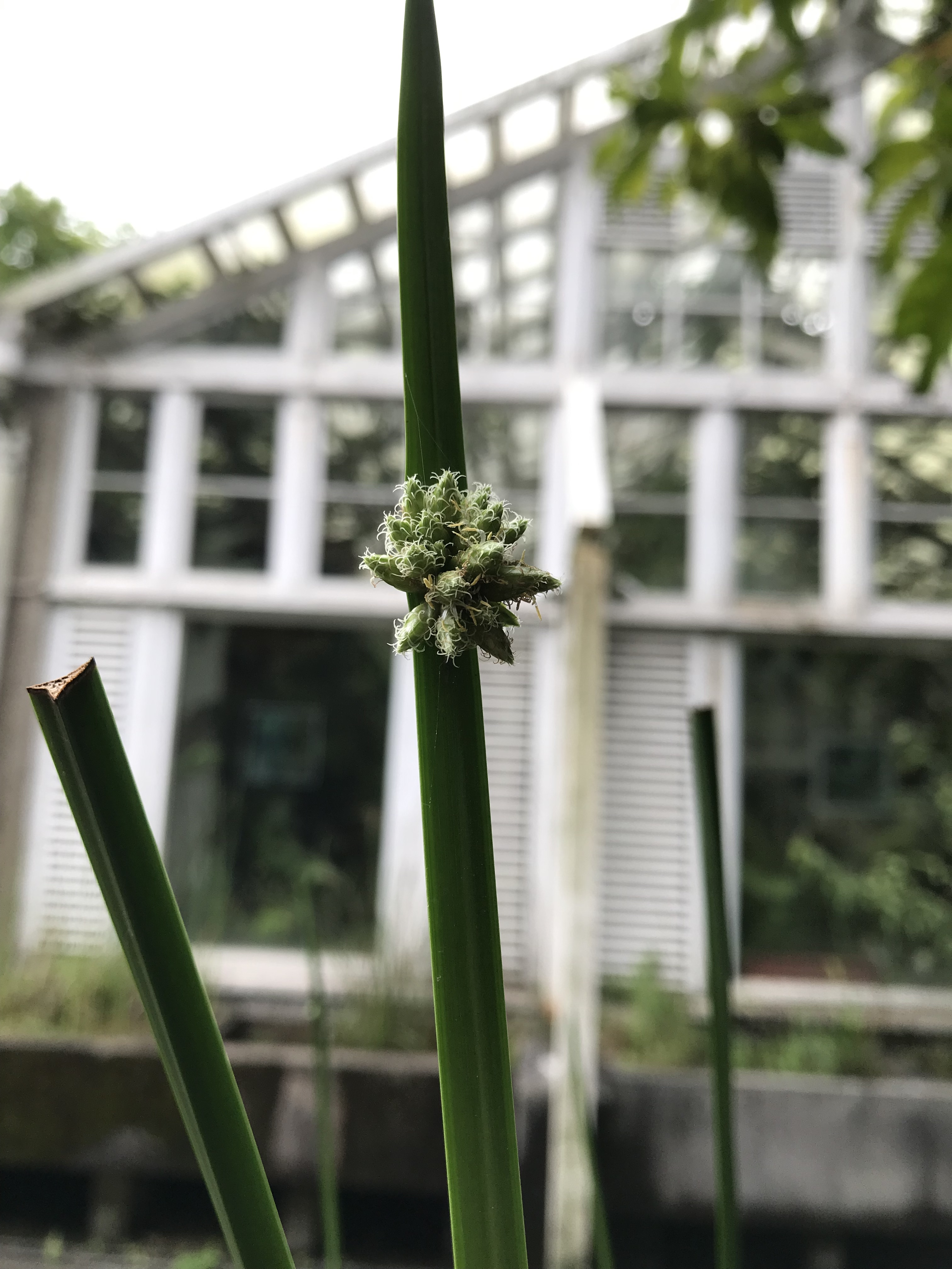 Gonostegia hirta (Bl. ex Hassk.) Miq. (flower)